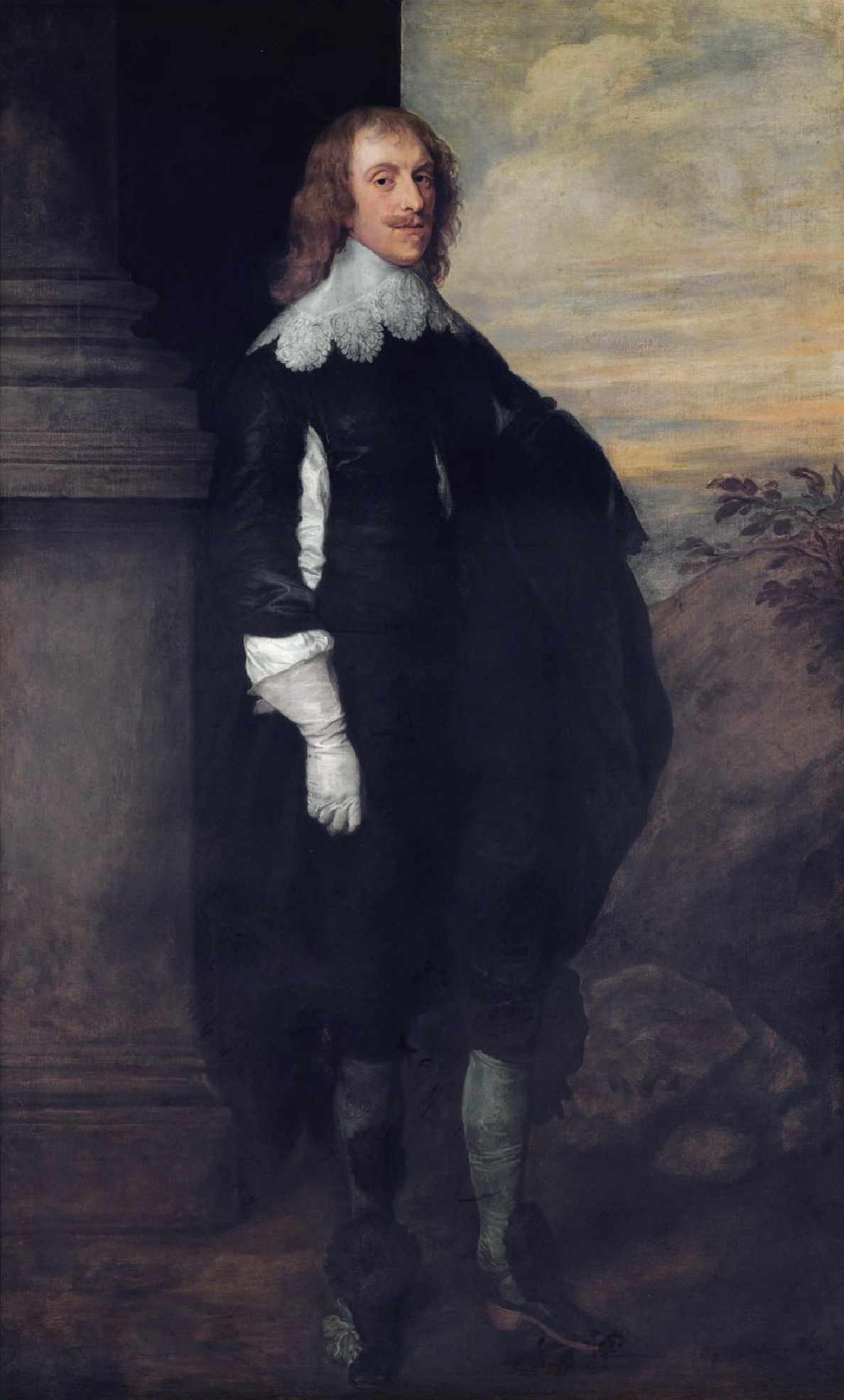 James Hay, 2nd Earl of Carlisle (circa 1612 date QS:P,+1612-00-00T00:00:00Z/9,P1480,Q5727902-1660)